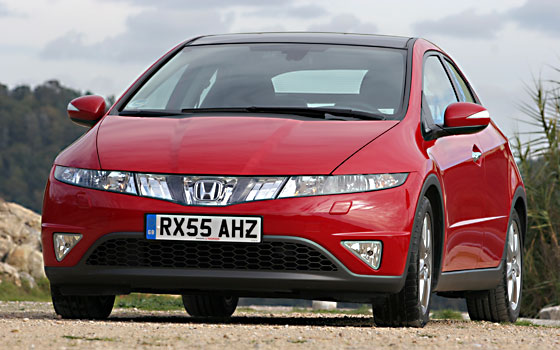 English Honda Civic